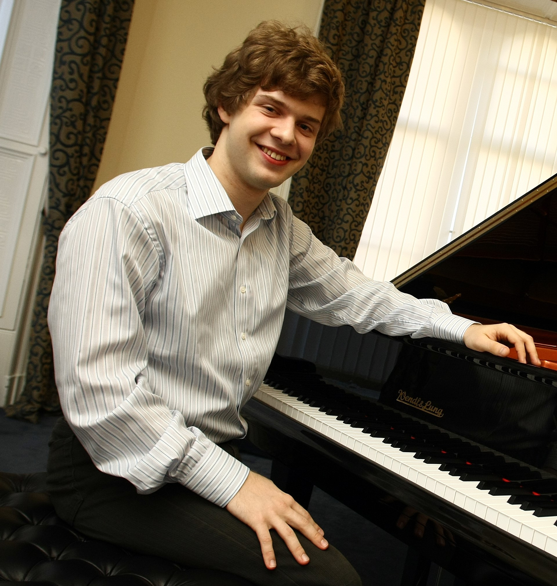 Alexej Gorlatch practising at Leeds Piano Competition